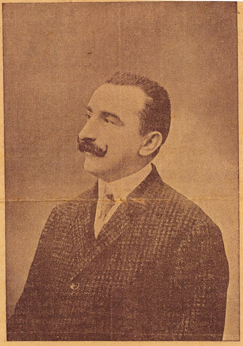 Julián Bourdeu (1870-1932), Justice of the Peace, journalist, Commissary of the Policía de la Capital (of Buenos Aires city, Argentina) and an industrious neighbor of that city, in a 1906 newspaper picture.